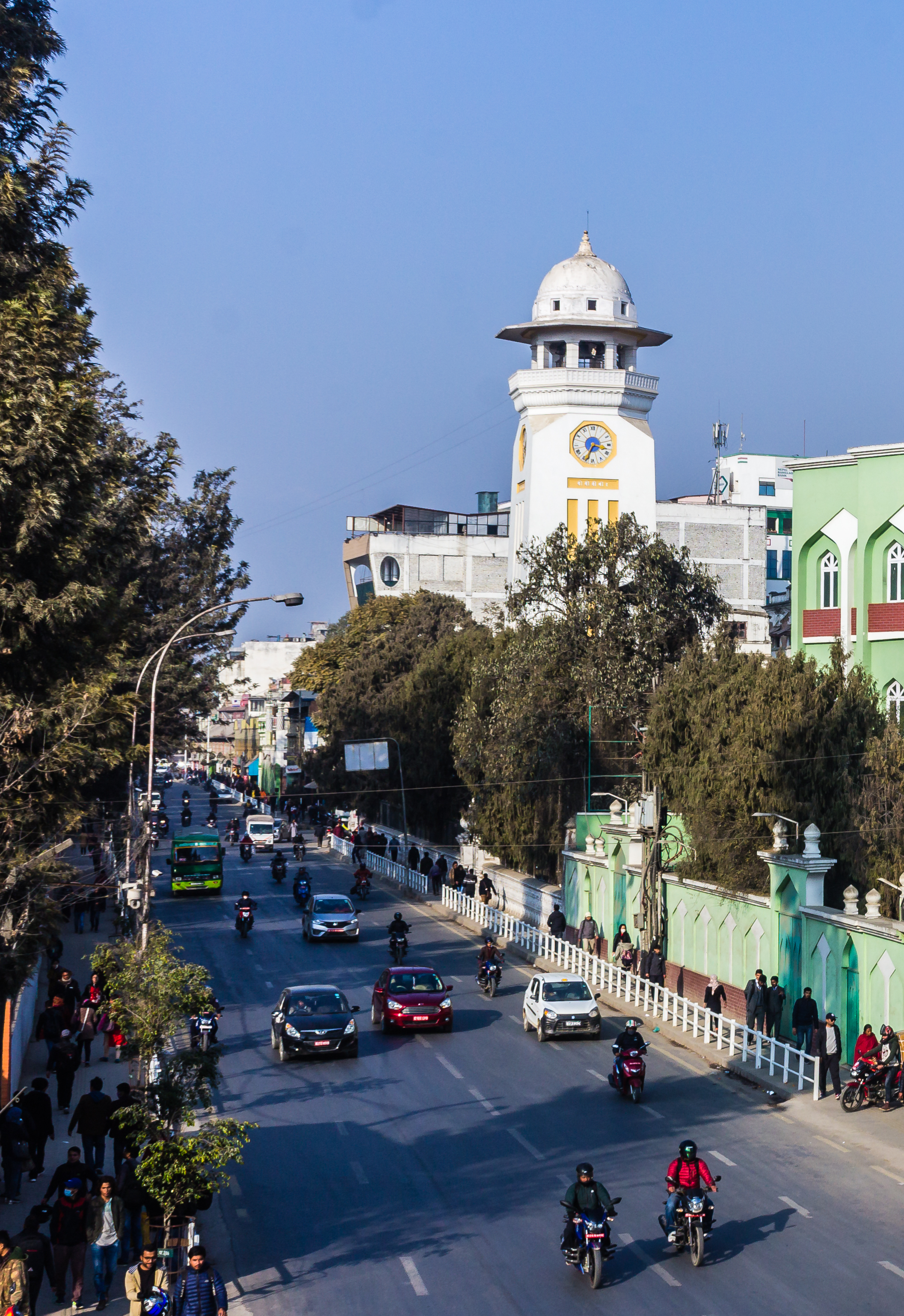 The GhantaGhar (घन्टाघर) is the first public tower clock in Nepal, situated at the heart of the capital city of Kathmandu (near to Trichandra College). It lies in front of Rani Pokhari.